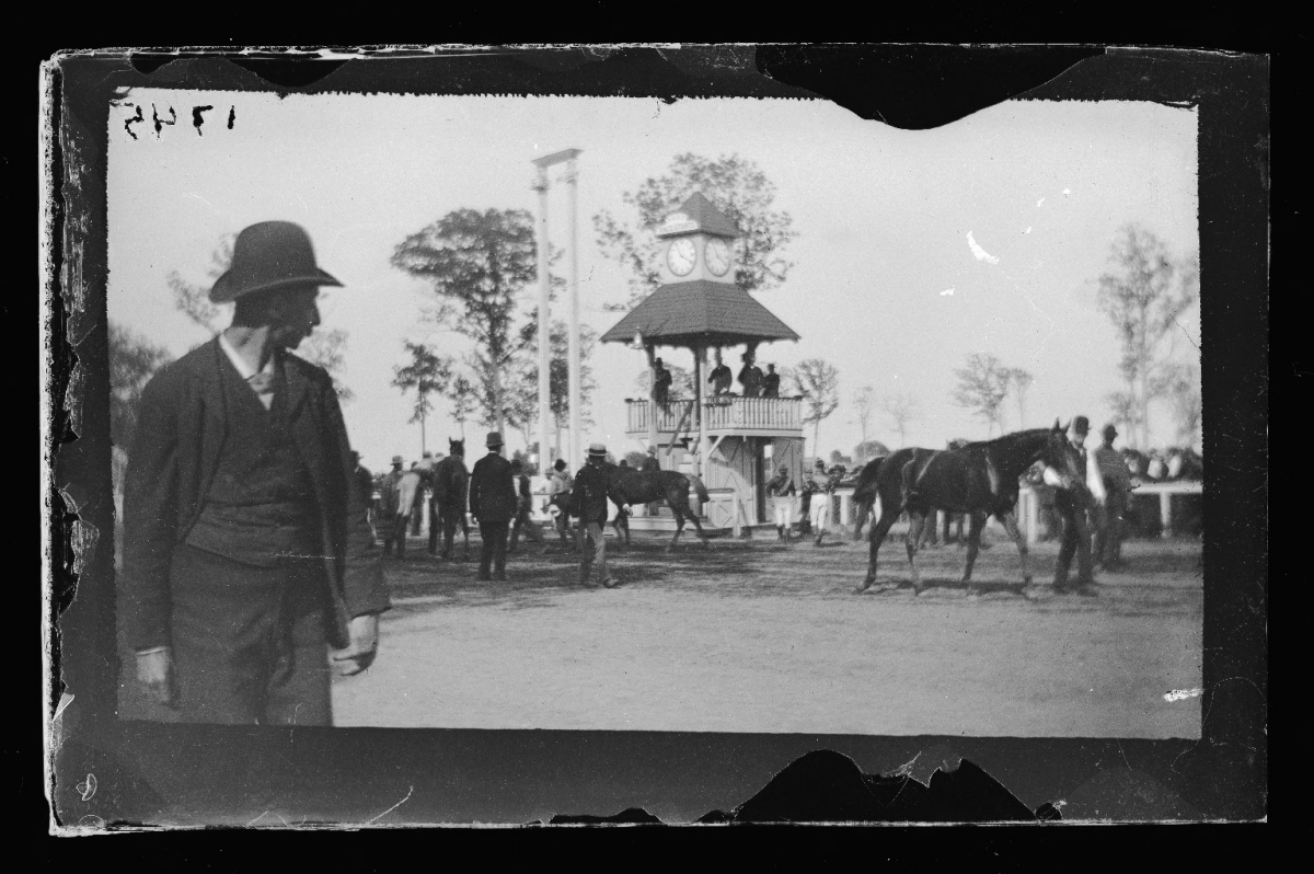 George Bradford Brainerd (American, 1845-1887). Races, Sheepshead Bay, Brooklyn, ca. 1872-1887. Wet-collodion negative. Prints, Drawings and Photographs. Brooklyn Museum/Brooklyn Public Library, Brooklyn Collection, 1996.164.2-1745. (1996.164.2-1745_glass_IMLS_SL2.jpg) Help us geotag this photograph so we can represent Brooklyn on Historypin. If you can figure out where this image should be placed: Use Suggestify to suggest a location for it. [or] Leave a comment on Flickr and link to the location on Google Maps. [or] Tweet @brooklynmuseum with the Flickr image URL, the location link to Google Maps and use the #mapBK hashtag. More about #mapBK